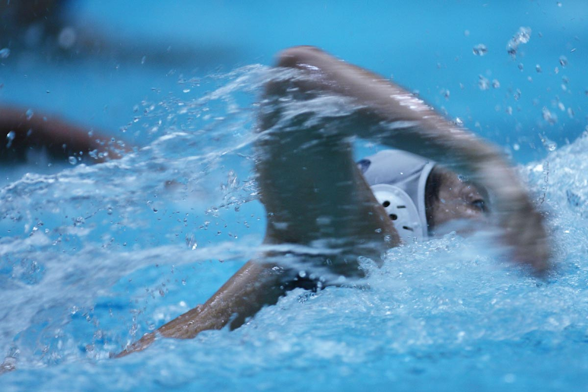 SEPTEMBER 25, 2009 - Water Polo : All Japan Water Polo Championships at Yokohama International Pool on September 25, 2009 in Kanagawa, Japan. (Photo by Tsutomu Takasu)